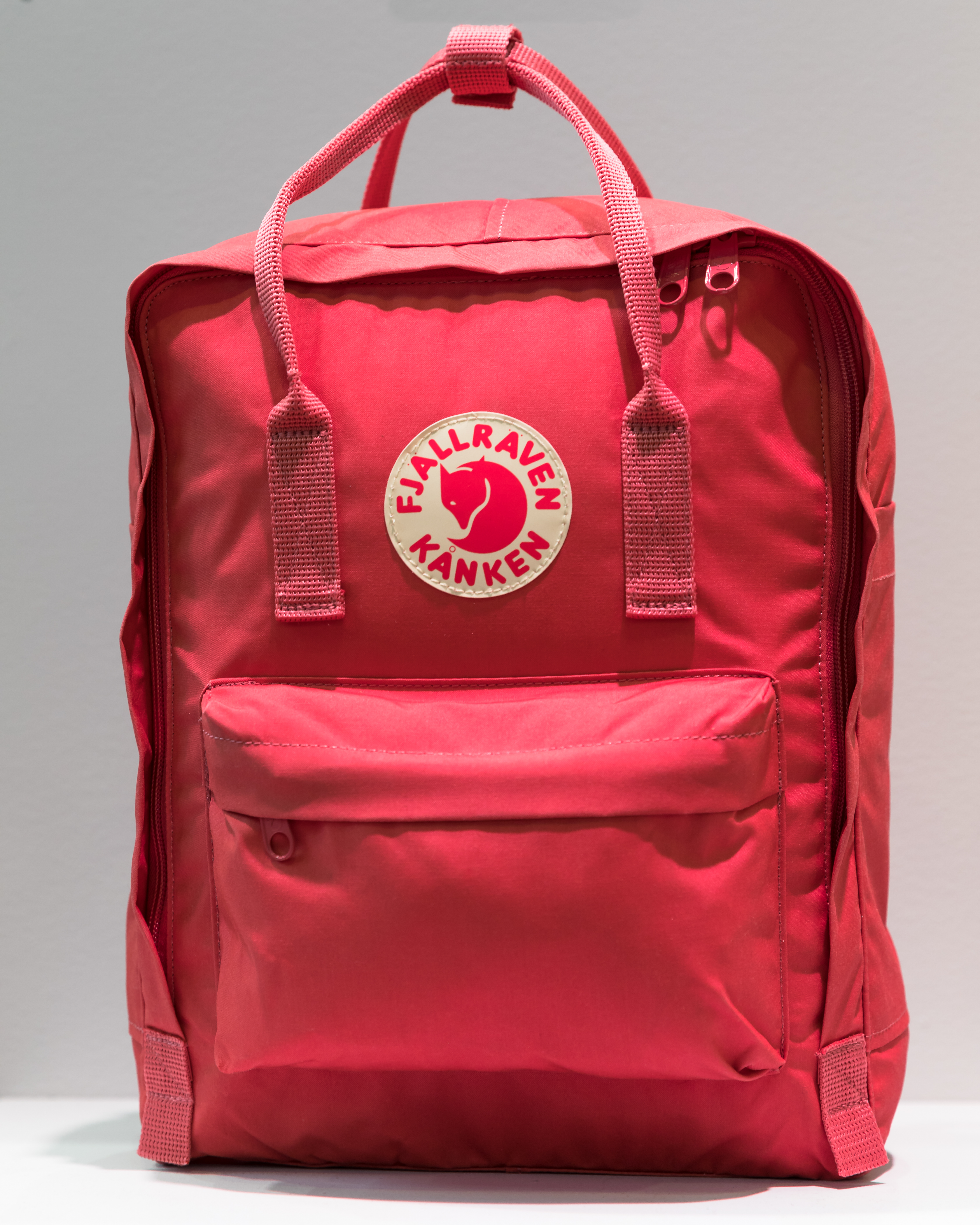 OutDoor 2018